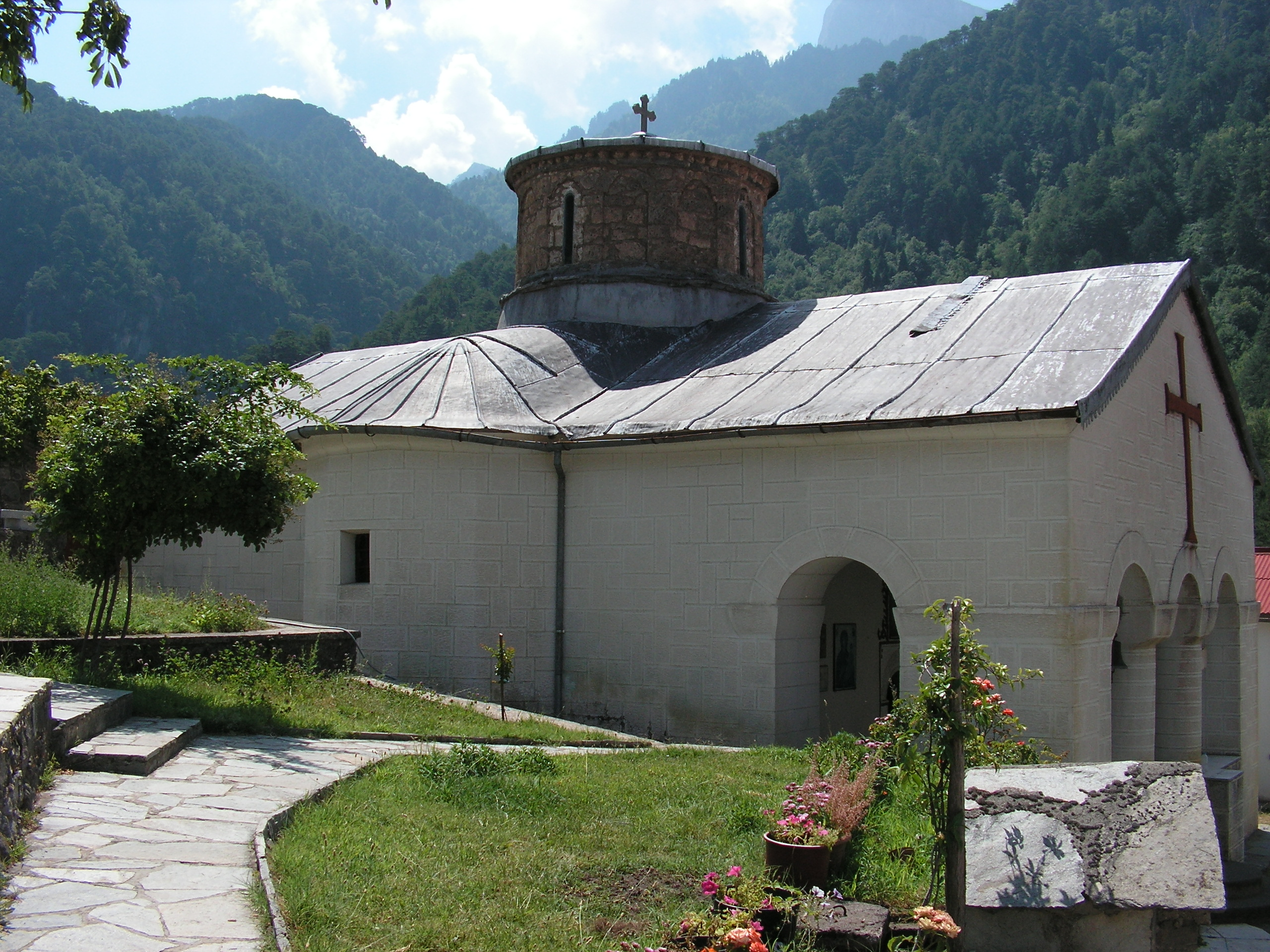 Monastery of Komnenion (Monastery of Saint Demetrius), Stomio monastery in Aoos Gorge, Vikos–Aoos National Park, Epirus, Greece.